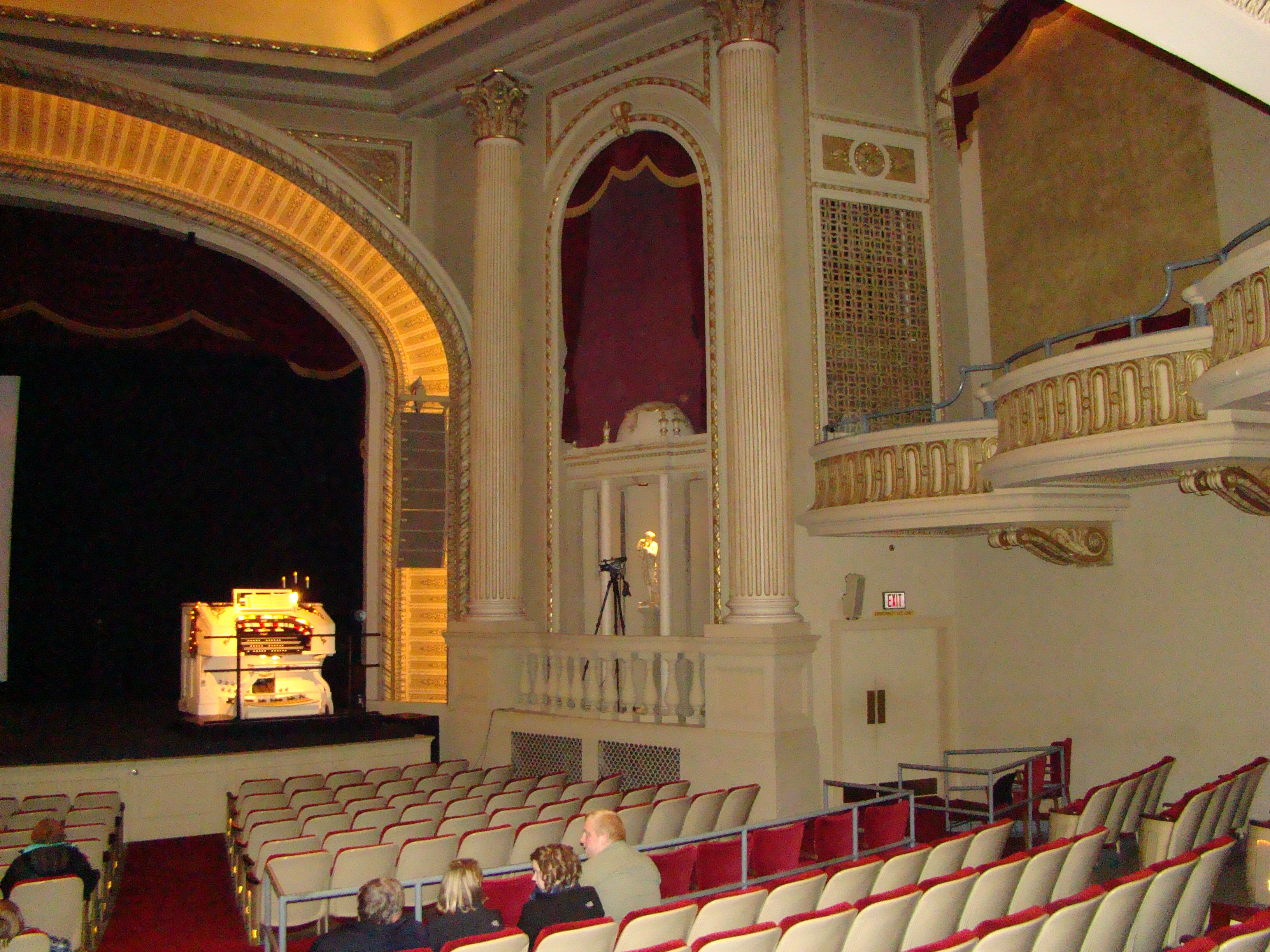 Interior of the Grand Theater, in Wausau, Wisconsin.